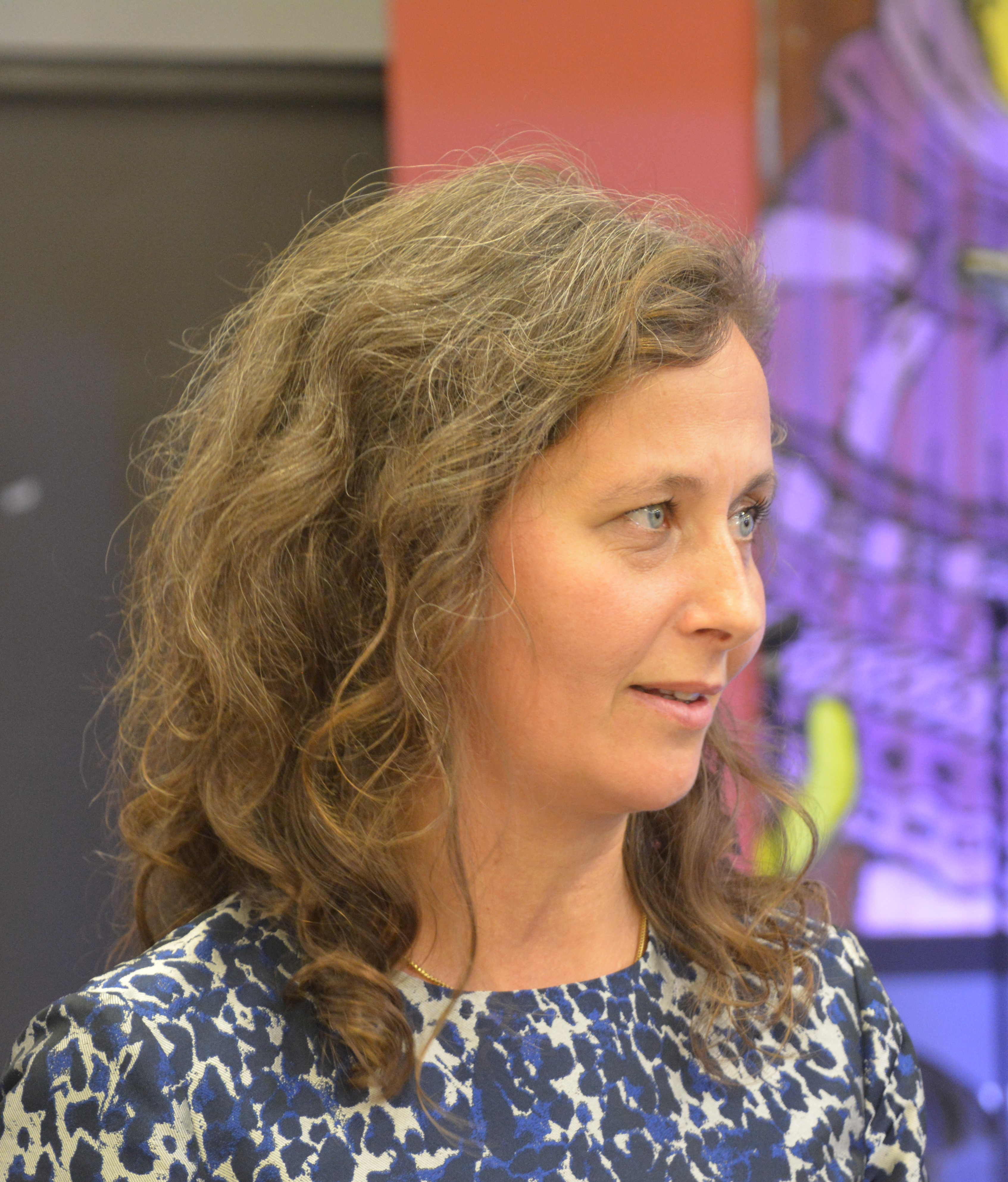 Nanna Gillberg at Göteborg Book Fair 2019